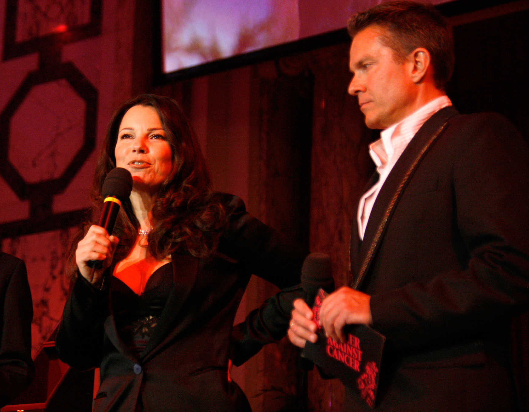 Fran Drescher and presenter Alfons Haider at the charity ball dancer against cancer (Hofburg Imperial Palace, Vienna)